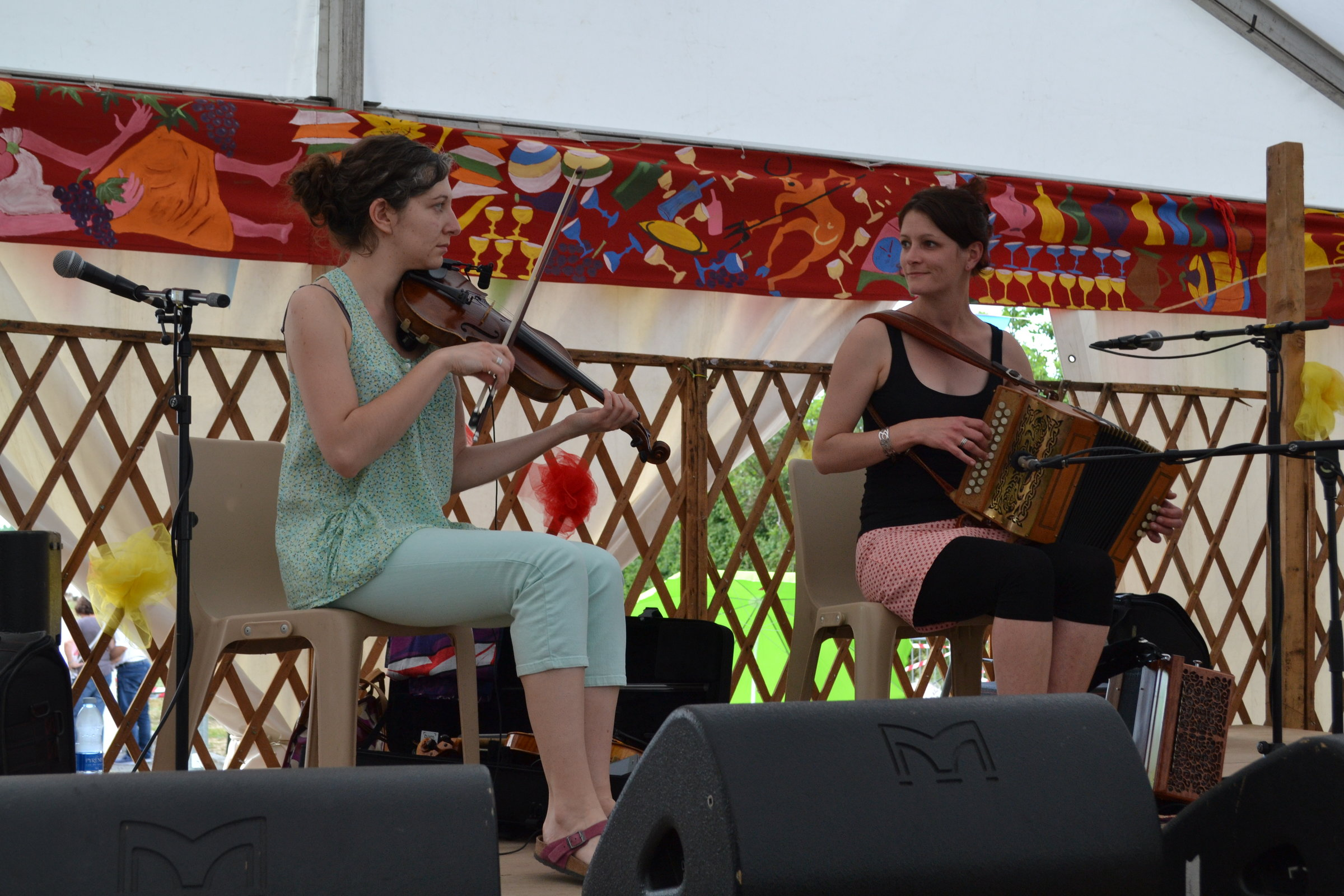 Duo Rivaud Lacouchie during Trad'Envie 2017.